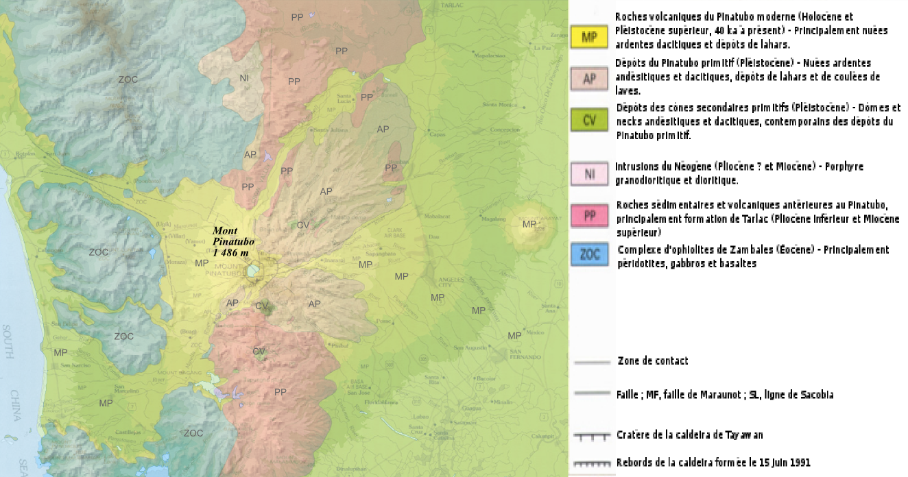 Geologic map of Pinatubo